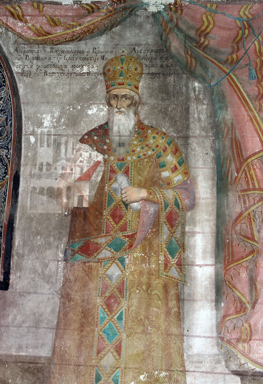 Fresco in Iera Moni Ioannou Prodromou, depicting the emperor Andronicos Palaiologos presenting the monastery some privileges (near Serres, Greece). Photographu taken by Marsyas on 07/31/2004.